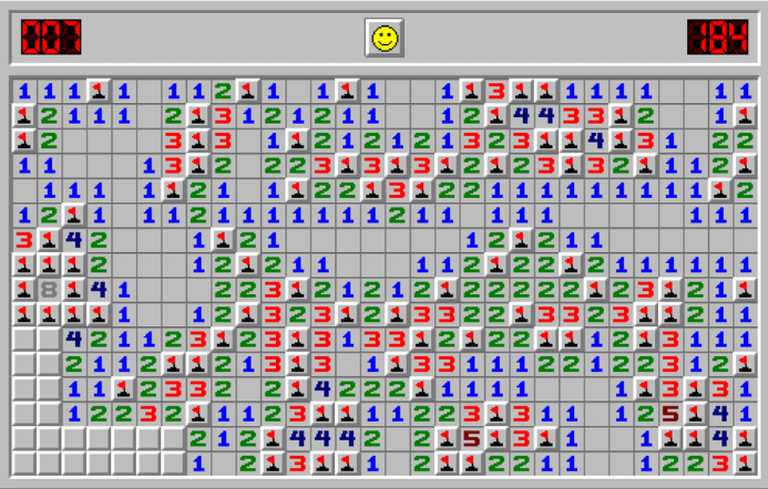 The commonly found theme of Minesweeper